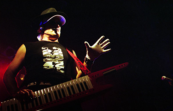 Michael Kocáb playing keyboard during concert in Opava